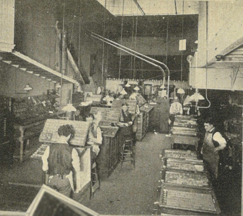 "Section of the composing room", one of a group of three photos in brochure Seattle and the Orient (1900), collectively captioned "The Seattle Daily Times—Views of the composing room." This is part of a long section on The Seattle Daily Times, publisher of the brochure/booklet. The newspaper is now known simply as the Seattle Times.